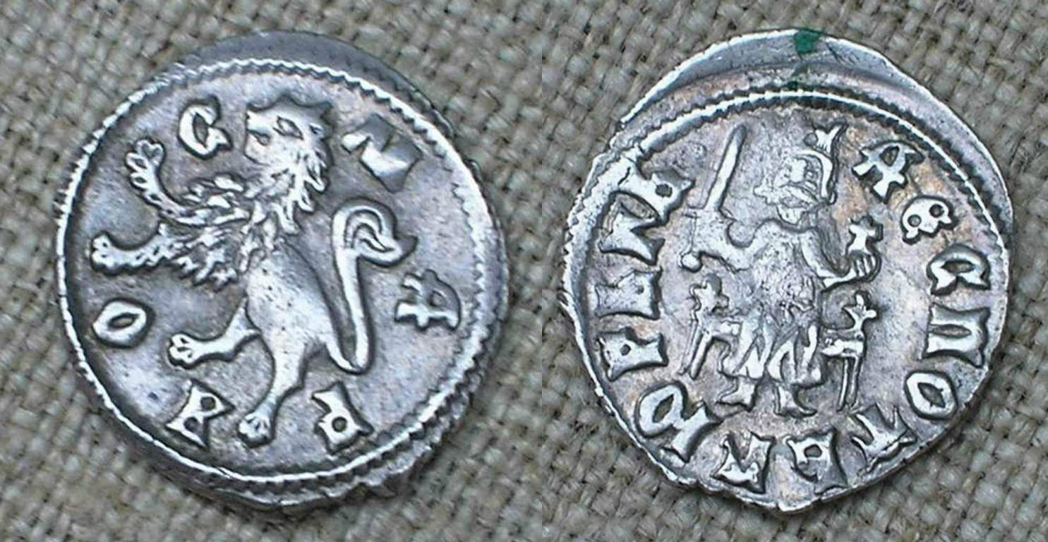 Obverse and reverse of Despot Đurađ Brankovićs silver coin minted in Smederevo in the 15th century, Museum in Smederevo